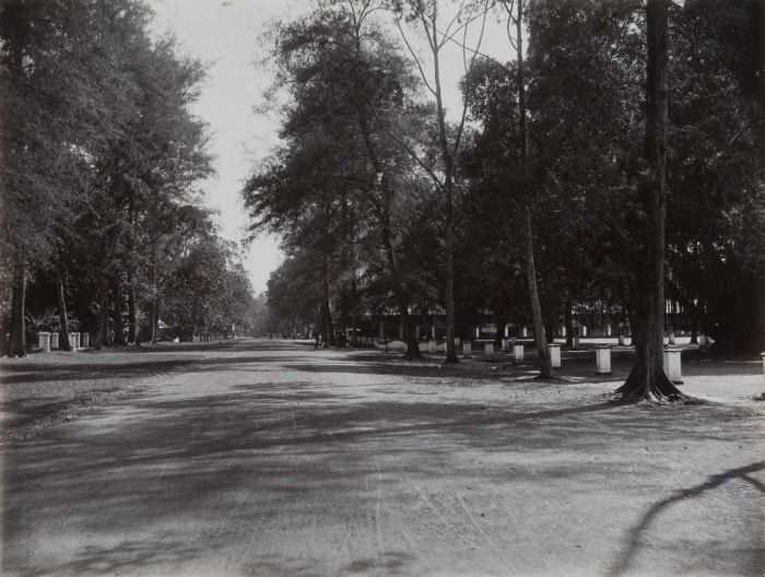 Street view